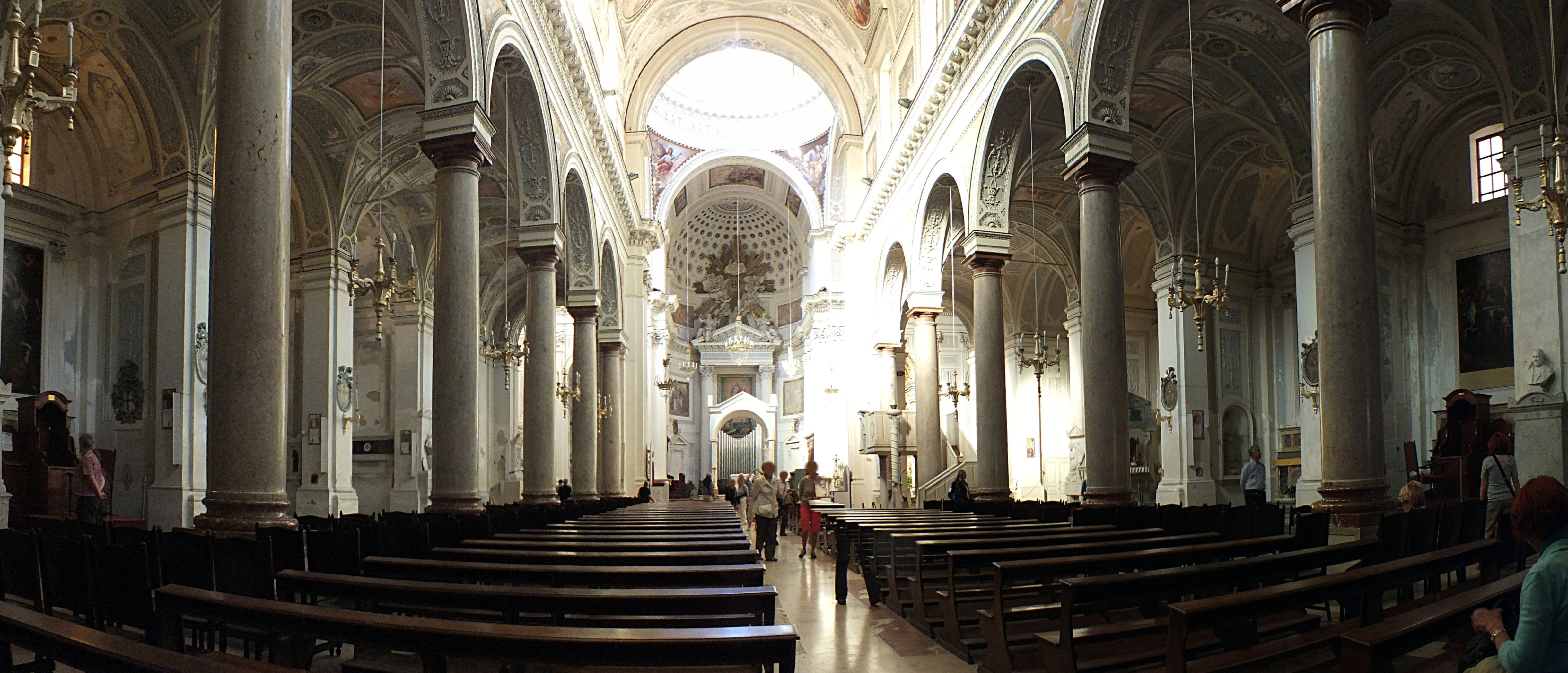 Trapani, Italien: Kathedrale San Lorenzo